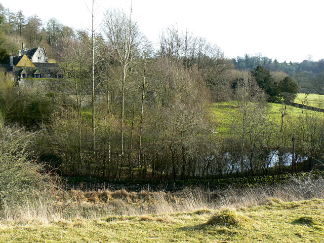 Daneway House, Sapperton The house is at the left of the image. I haven't found out much about the house other than to discover that it is 'a manor house of the 14th to 17th centuries'.